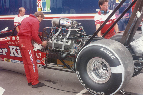 Dale Armstrong works his magic for Kenny Bernstein. Armstrong had been a driver earlier, and was named #10 on the Top 50 NHRA drivers list.